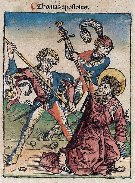 This is a part of a scan of an historical document: Title: Schedelsche Weltchronik or Nuremberg Chronicle